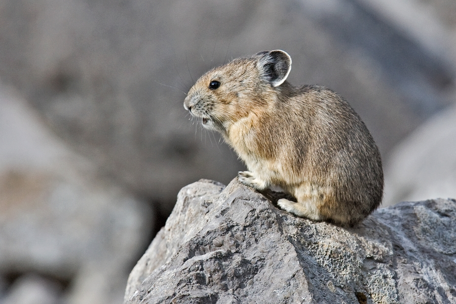 Pika (Ochotona princeps) near Jasper, Alberta